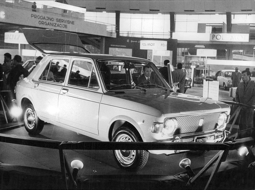 A Zastava 101 on display in a car dealership in Zagreb.